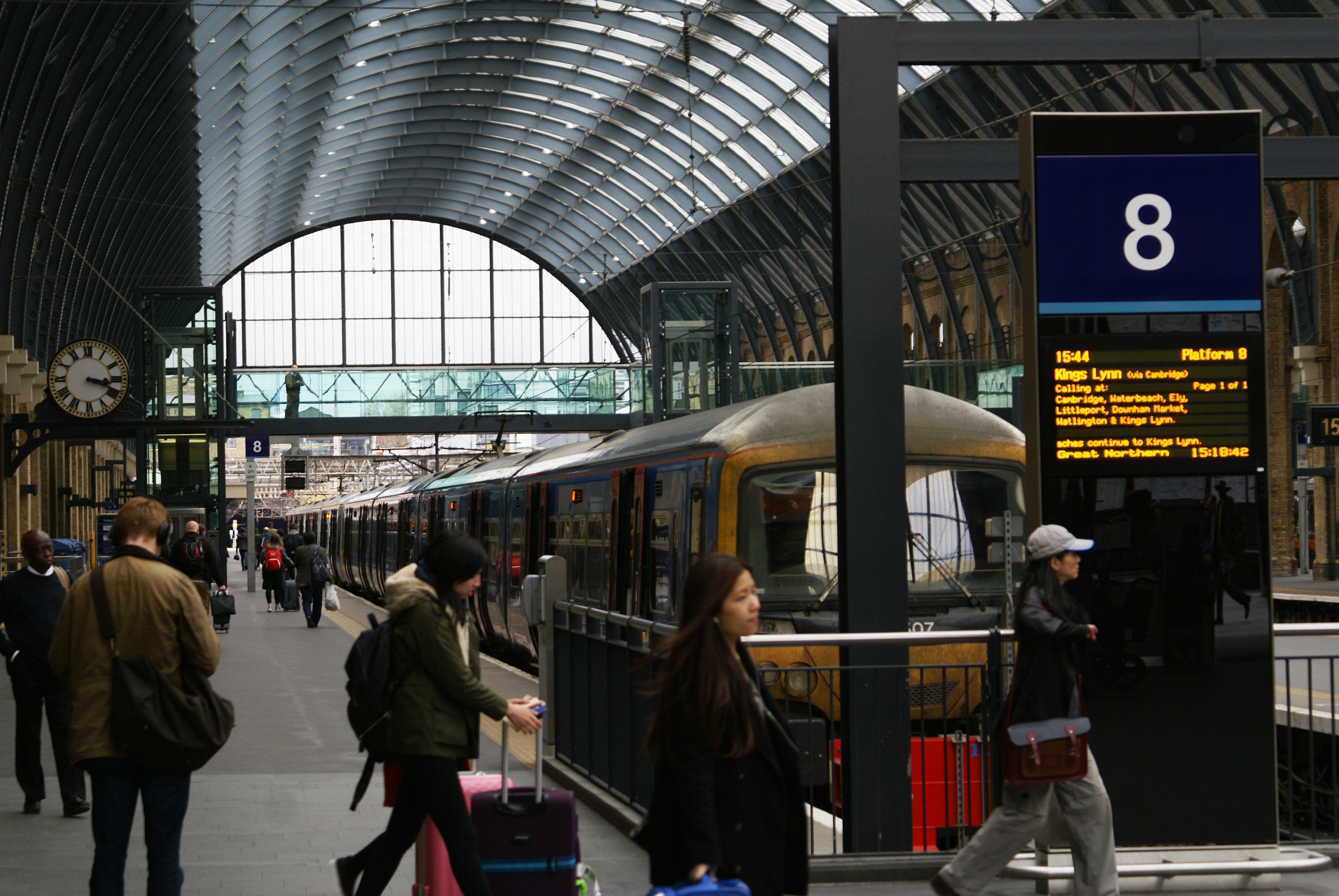 Taken behind the barrier at London Kings Cross railway station, the picture shows a Great Northern Class 365 (still in the First Capital Connect Livery) at Platform 8 with commuters passing in front of the train.